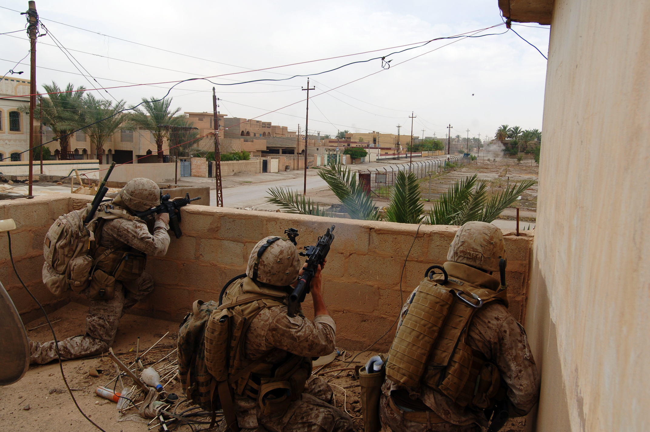 Ramadi, Iraq. (May 20, 2006) – Cpl. Julius Mitchell, left, and Cpl. Jeremy Rugg, center, lay down covering fire while Cpl. Adam Gokey spots insurgent positions on his right and fires a grenade, seen traveling through the air, while on patrol in the city of Ramadi. The mission was part of the continuing support by 2nd Air Naval Gunfire Liaison Company (ANGLICO) to the 2nd Brigade Combat Team/28th Infantry Division (2/28th BCT). 2/28th BCT is deployed with 1st Marine Expeditionary Force (IMEF) in support of Operation Iraqi Freedom in the Al Anbar province to develop the Iraqi security forces, facilitate the development of official rule of law through democratic government reforms, and continue the development of a market based economy centered on Iraqi reconstruction. U.S Navy Photo by Photographer's Mate 2nd Class Samuel C. Peterson (RELEASED)